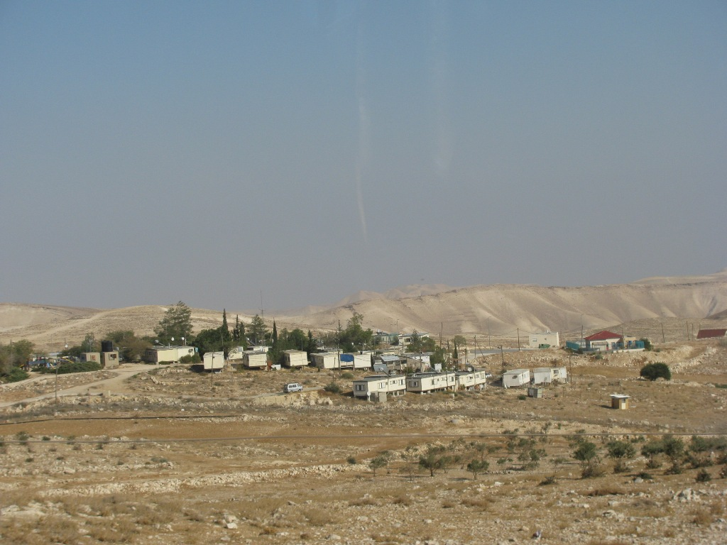 Kfar Eldad located south - east of Herodion overlooking the Judean Desert